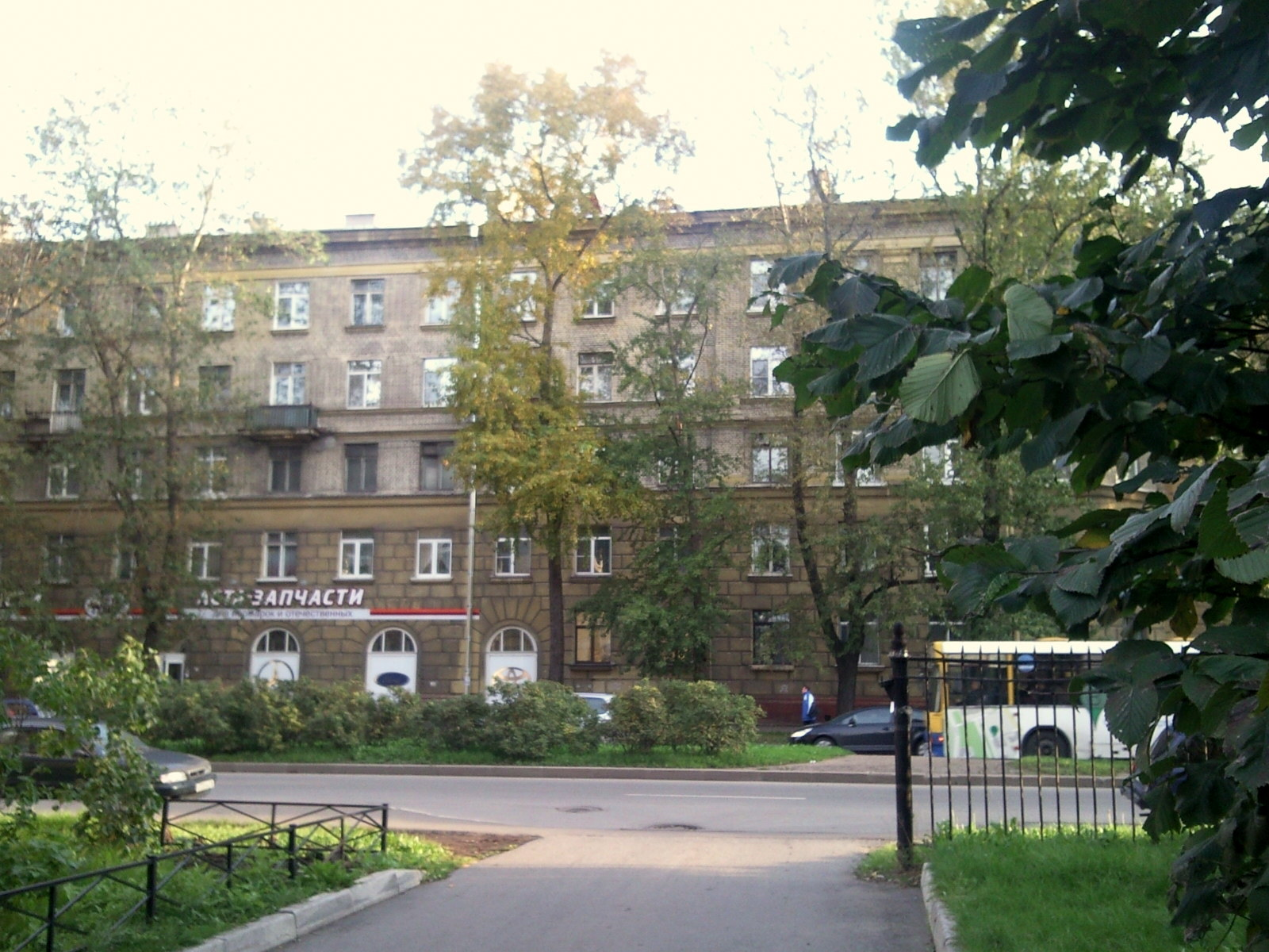 Vasi Alekseeva Street in Saint Petersburg